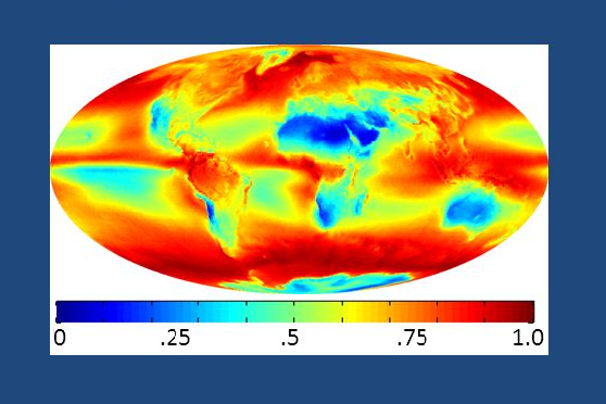 A 7-years mean map showing the cloud fraction over the world as being measured by NASA's Aqua satellite by local 1.30 p.m.